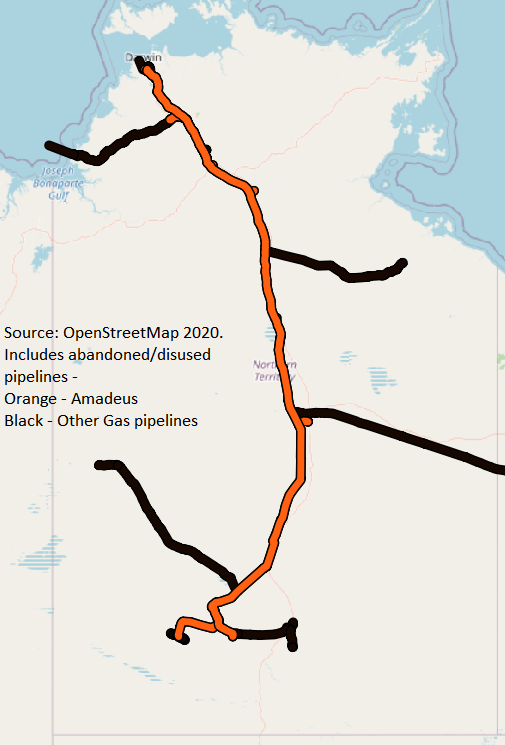 The Amadeus Pipeline (orange) and other main gas pipelines in the Northern Territory including disused and abandoned pipelines sourced from OpenStreetMap (May 2020)